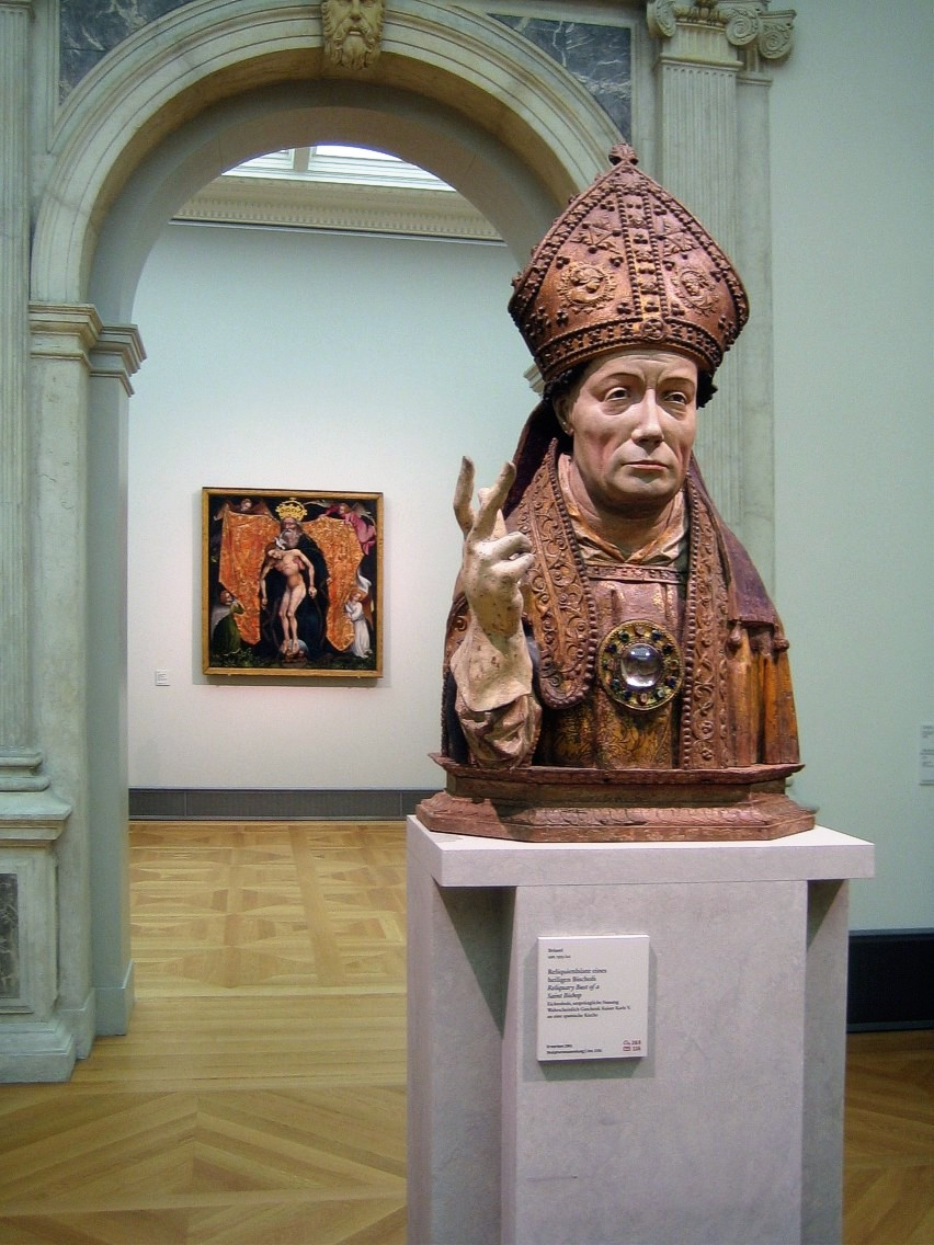 Bode-Museum Berlin, interior view. In the foreground: Reliquary bust of a Bishop Saint, Brussels c. 1515/1520; oakwood, original colours, height 72.5 cm (without pedestal)Skulpturensammlung (Inv. 2/61, erworben 1961)